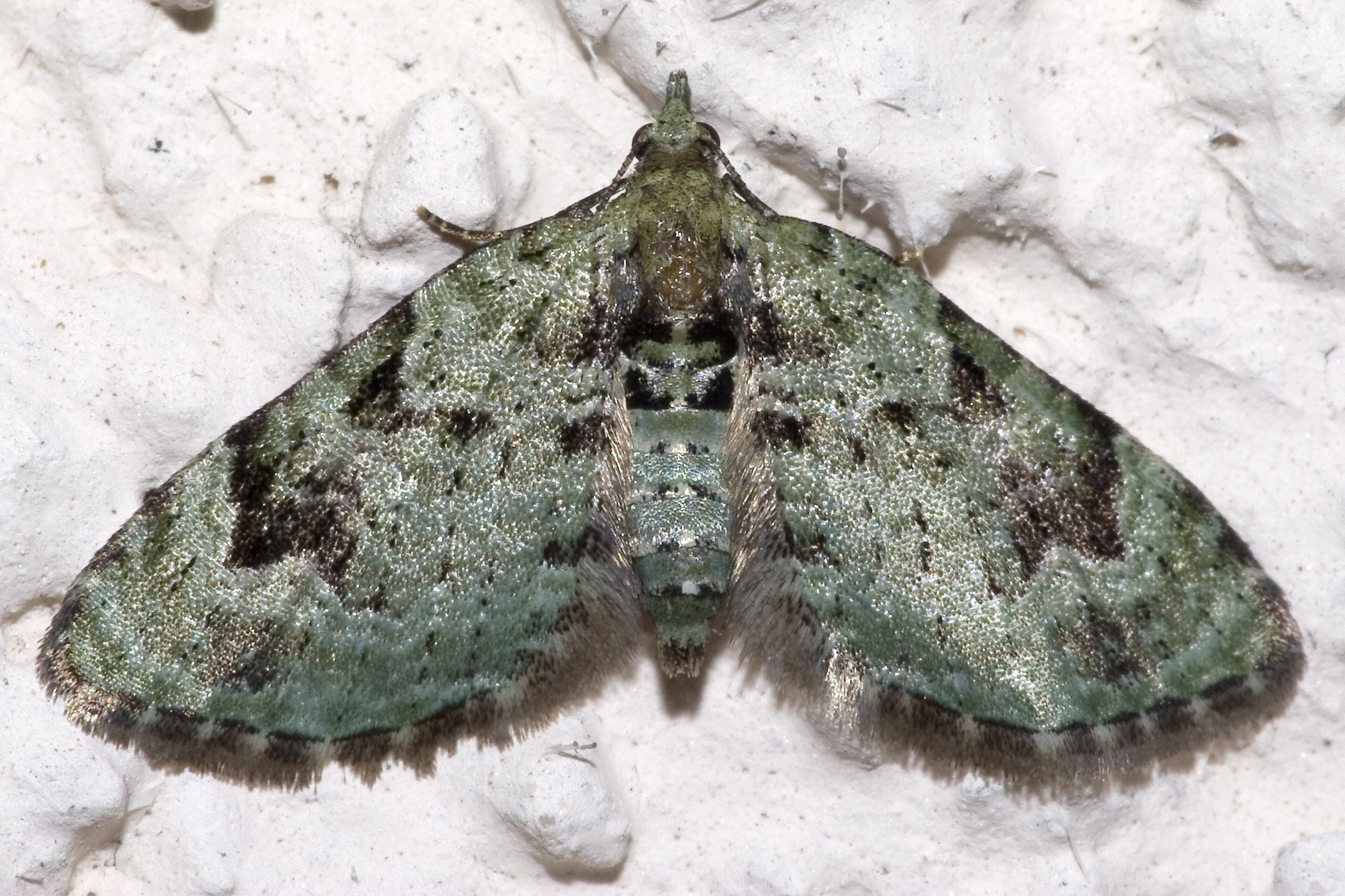 The V-Pug, Chloroclystis v-ata